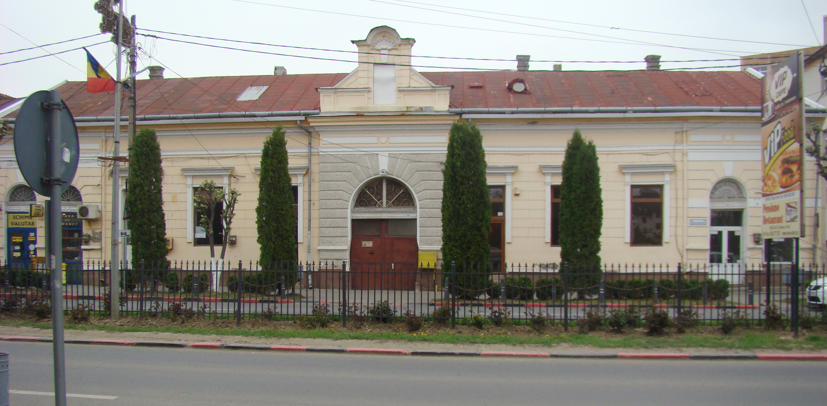 Tudor Vladimirescu street in Hațeg, Hunedoara county, Romania